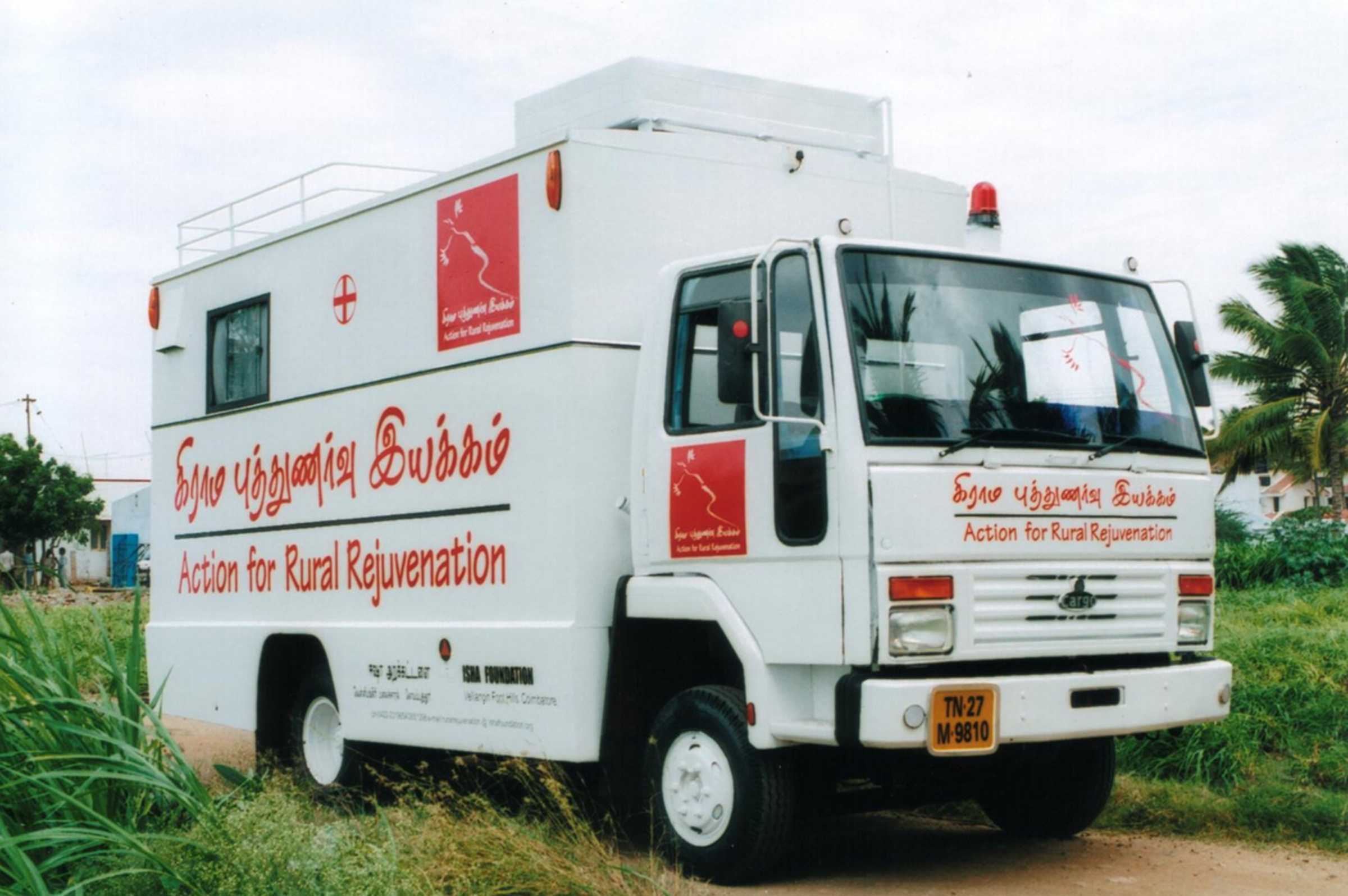 Photograph of ARR mobile health clinic